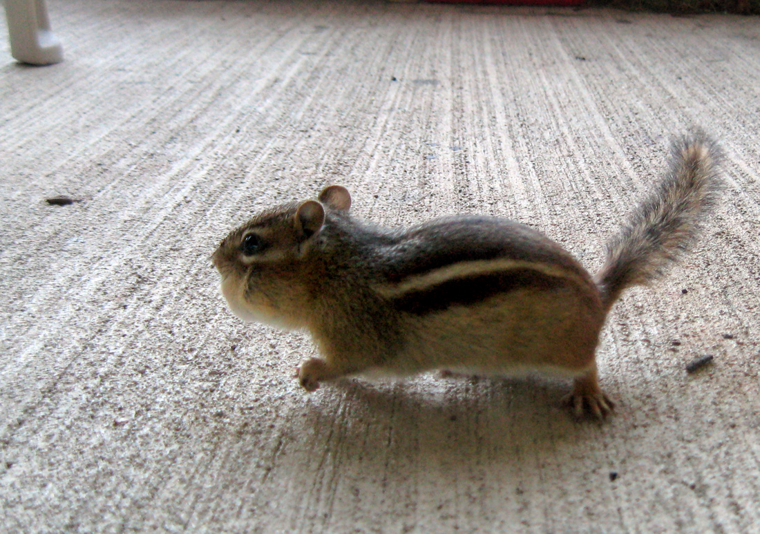 A Chipmunk showing the cheek pouch.